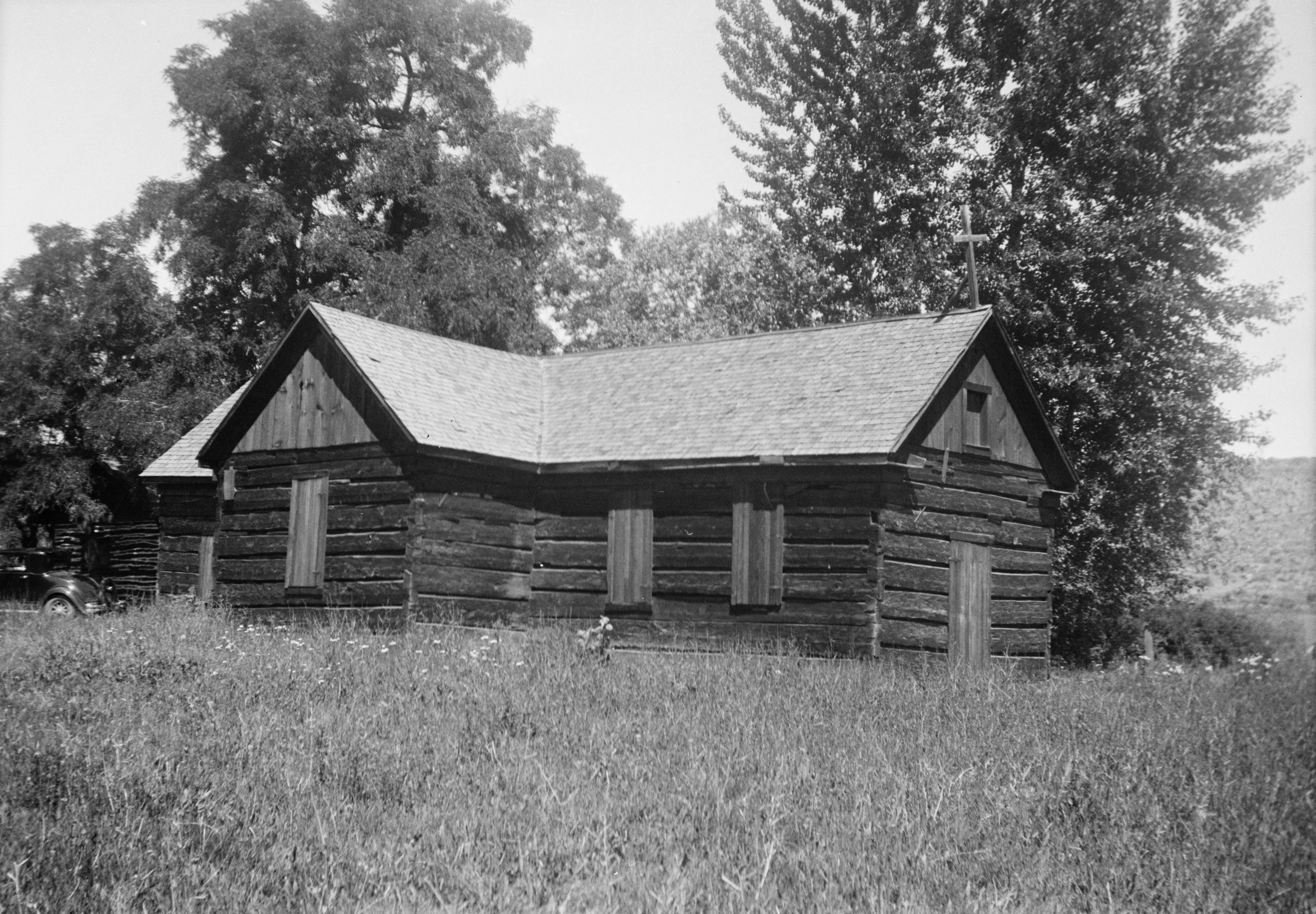 St. Joseph's Mission, near Tampico, Yakima County, Washington. Three point perspective.